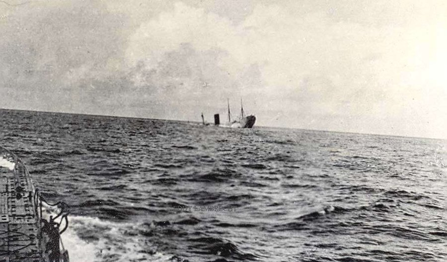 RMS Carpathia Sinking On the summer morning of 17 July she was torpedoed, at 9:15 by the Imperial German Navy submarine U-55